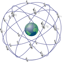 Configuration of GPS satellites